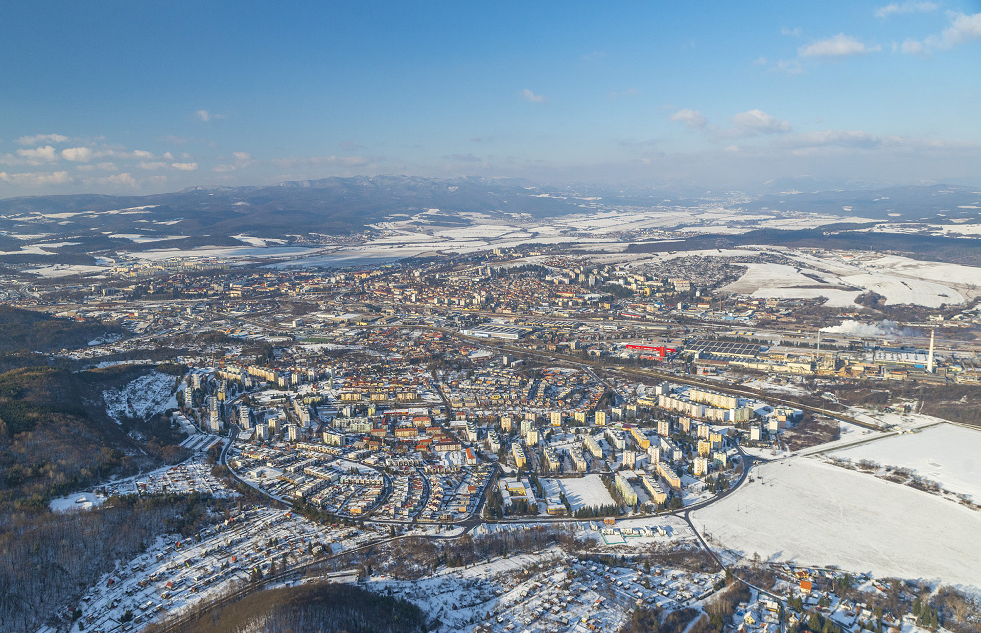 An aerial view of Zvolen from southeast.